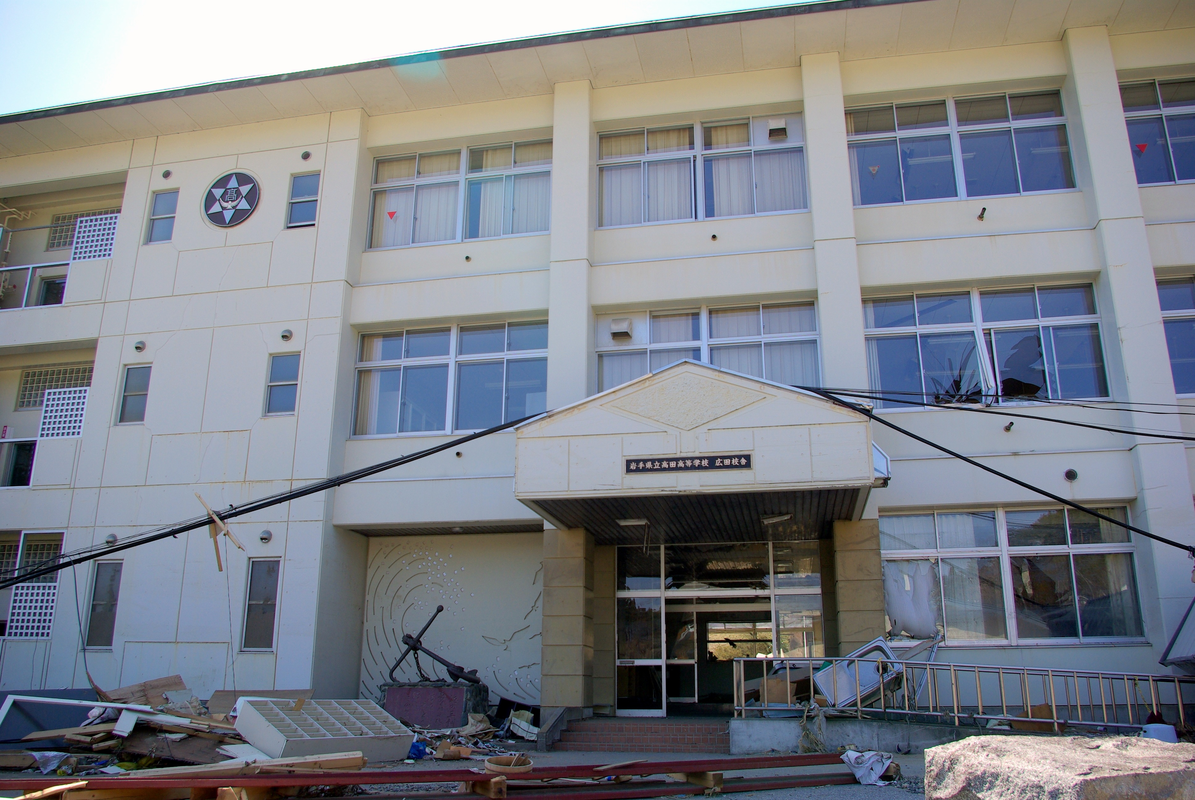 The former Iwate Prefectural Hirota Fishery High School in Rikuzentakata, Iwate, Japan after the tsunami. Currently, the Hirota campus of the Iwate Prefectural Takata Senior High School.